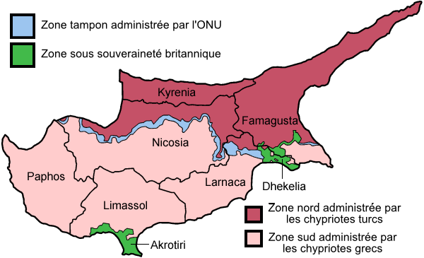 Map of the districts of Cyprus